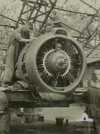 AWM caption : Mareeba, Qld. 1944-03-14. A CAC Boomerang fighter aircraft of No. 5 (Tactical Reconnaissance) Squadron RAAF, inside a camouflaged hangar, undergoing a 240-hourly inspection by fitters. Comment : the engine is a Pratt & Whitney R-1830 Twin Wasp.